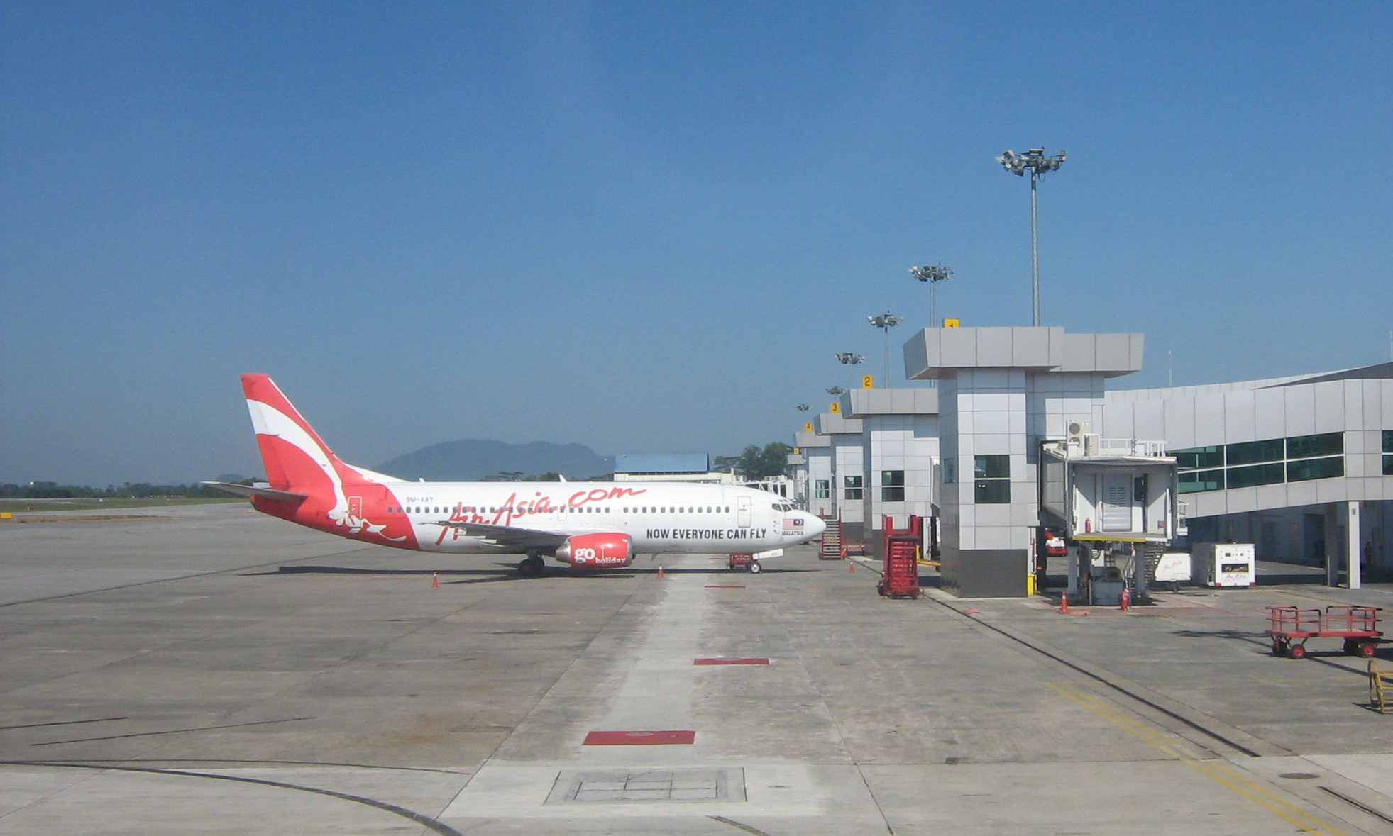 kuching airport air asia Boeing 737-300 (9M-AAY)